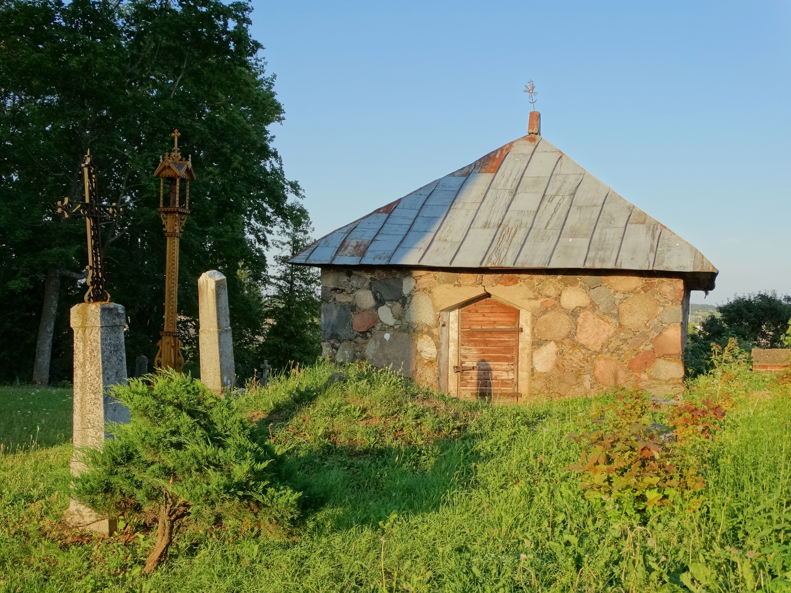 Chapel in Kamajai, Rokiškis district, Lithuania